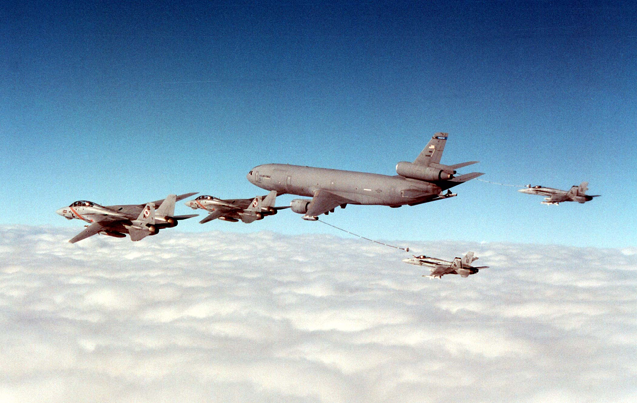 Two U.S. Navy F-14B Tomcats (left) fly in formation with a U.S. Air Force KC-10A Extender (center) as it refuels two Navy F/A-18C Hornets (right) over the Persian Gulf on Dec. 29, 1997. The Tomcats and the Hornets are part of Carrier Air Wing One embarked on the aircraft carrier USS George Washington (CVN-73). The Washington is operating in the Persian Gulf in support of Operation Southern Watch which is the U.S. and coalition enforcement of the no-fly-zone over Southern Iraq. The Extender is deployed to the Persian Gulf area of operations from Travis Air Force Base, Calif.